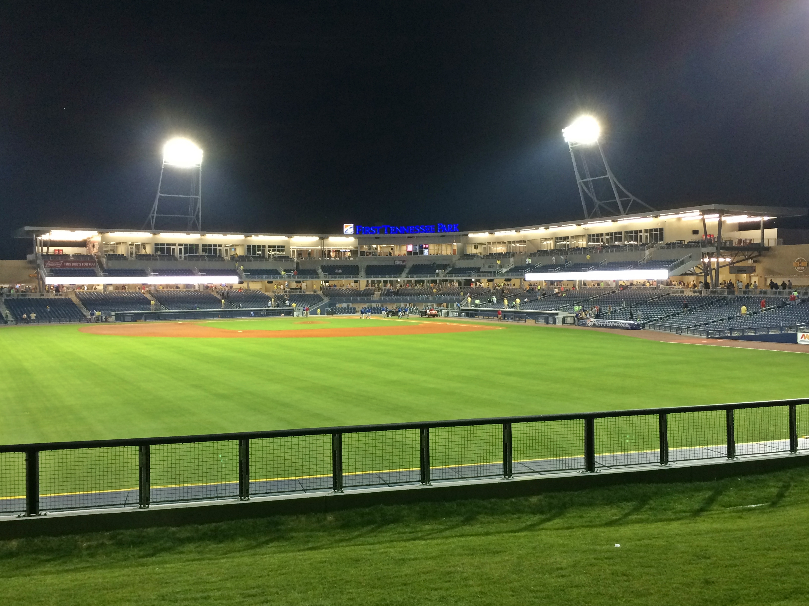 First Tennessee Park after a game on May 5, 2015